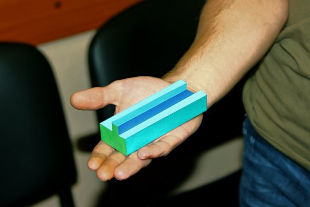 Impossible object